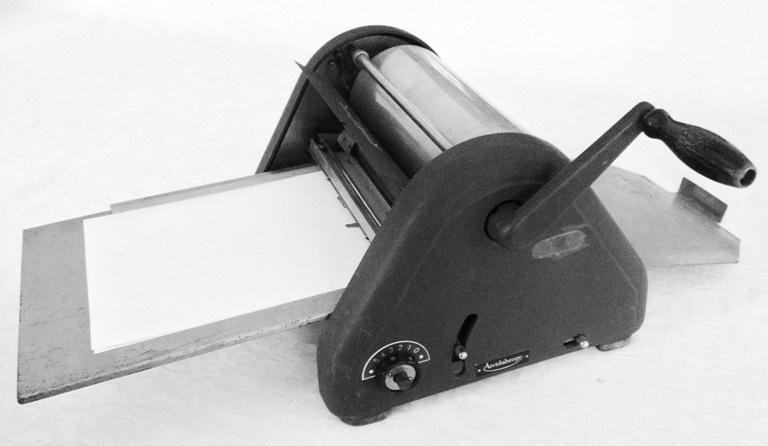 A spirit duplicator, swedish model "Plentograf" from AB Lennartsfors mekaniska verkstad, probably produced around 1960